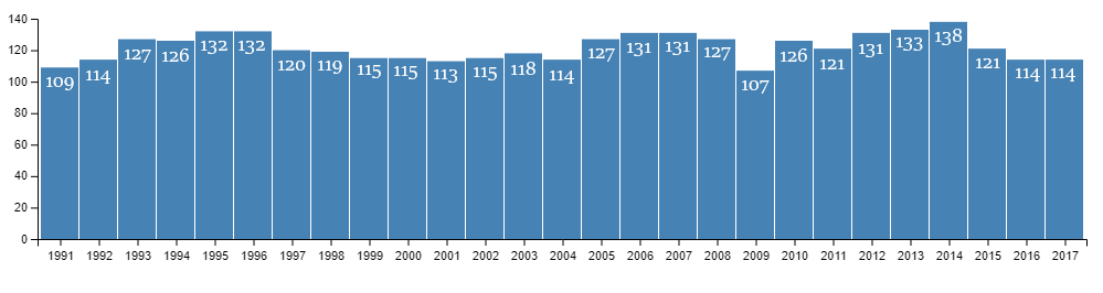 Population of Greenlandic settlement Sarfannguit in 1991-2017